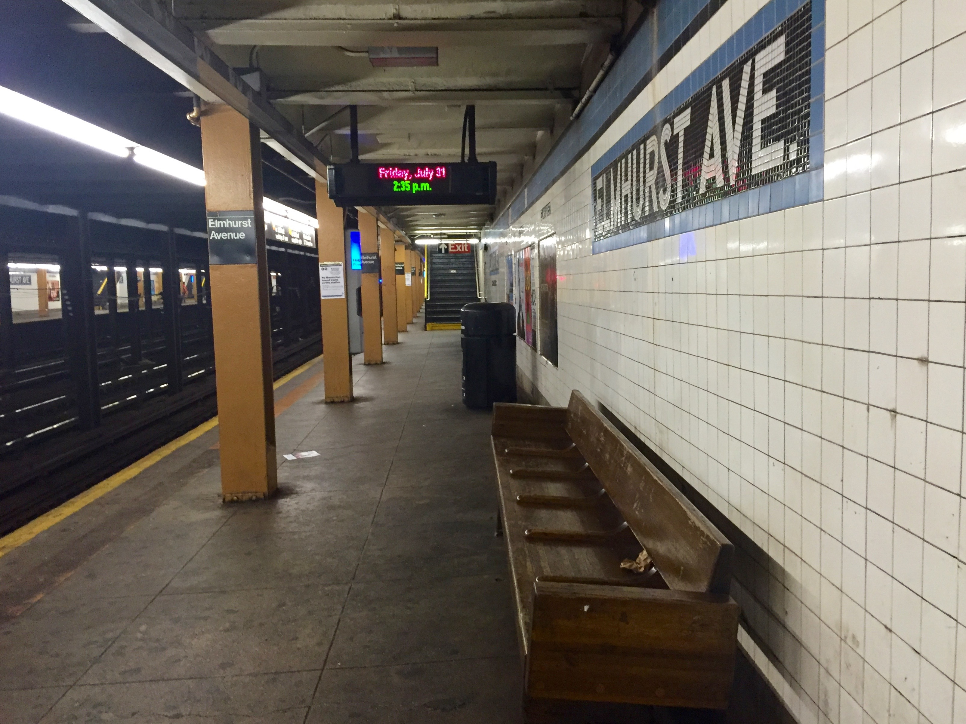 Manhattan bound platform at Elmhurst Avenue on the M/R.